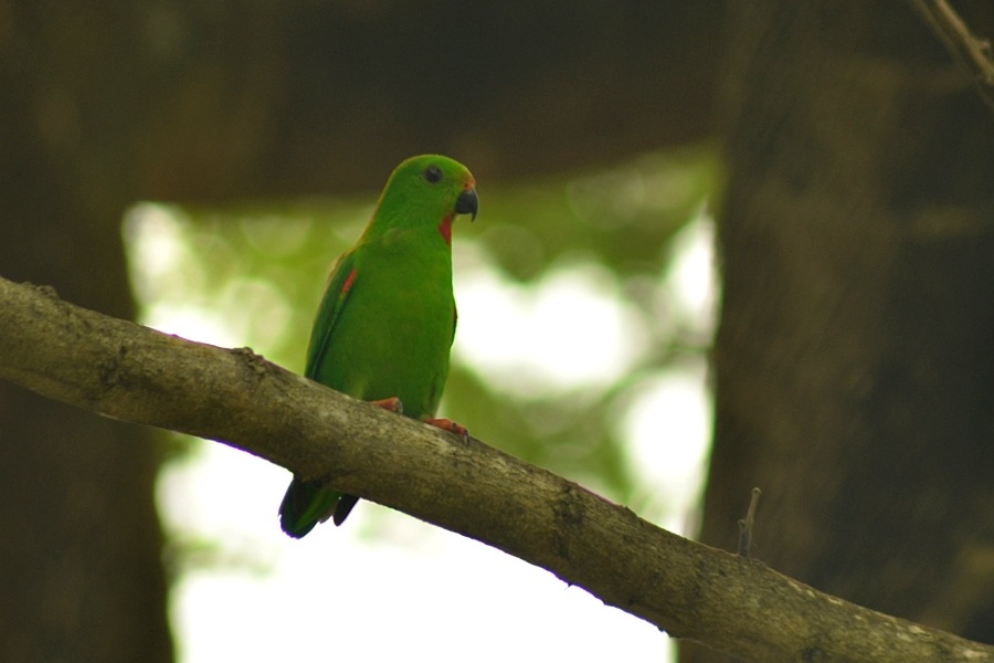 Large Sulawesi Hanging-parrot / Great Hanging Parrot